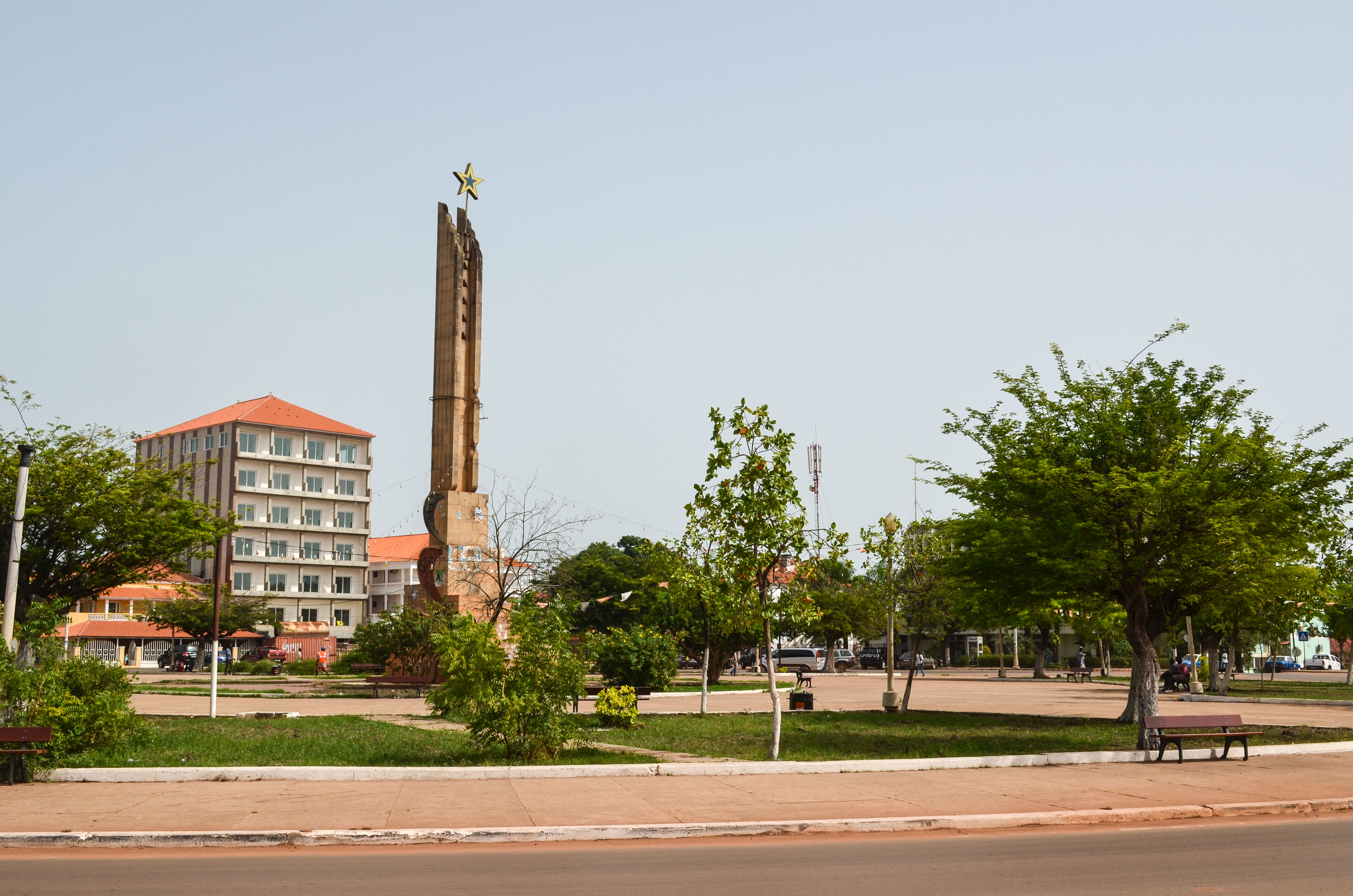 The Monumento aos Heróis da Independência at Praça dos Herois Nacionais in Bissau, Guinea-Bissau